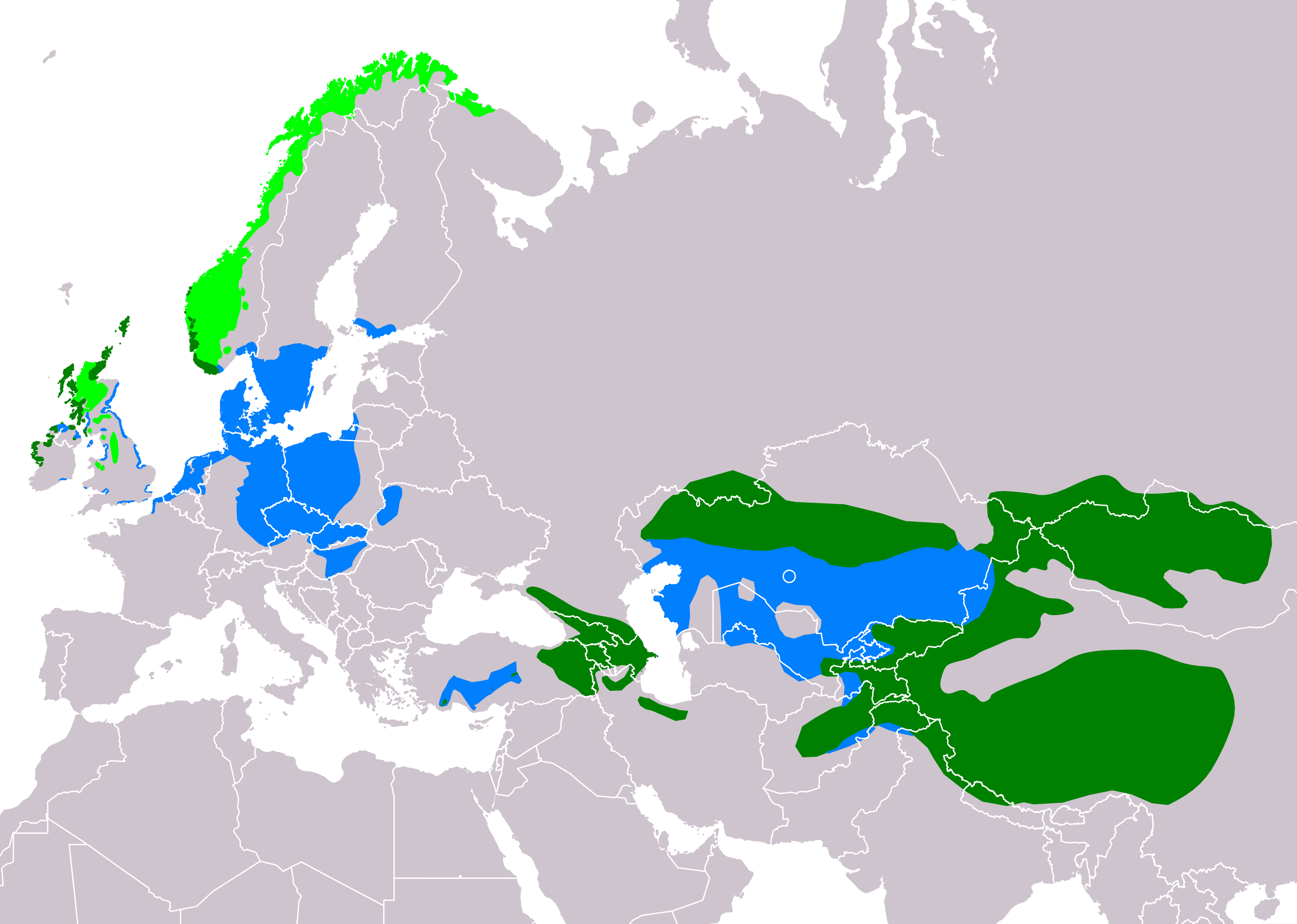 Map of twite (Linaria flavirostris) according to IUCN version 2018.2 , Legend: Extant, breeding (#00FF00), Extant, resident (#008000), Extant, non-breeding (#007FFF)